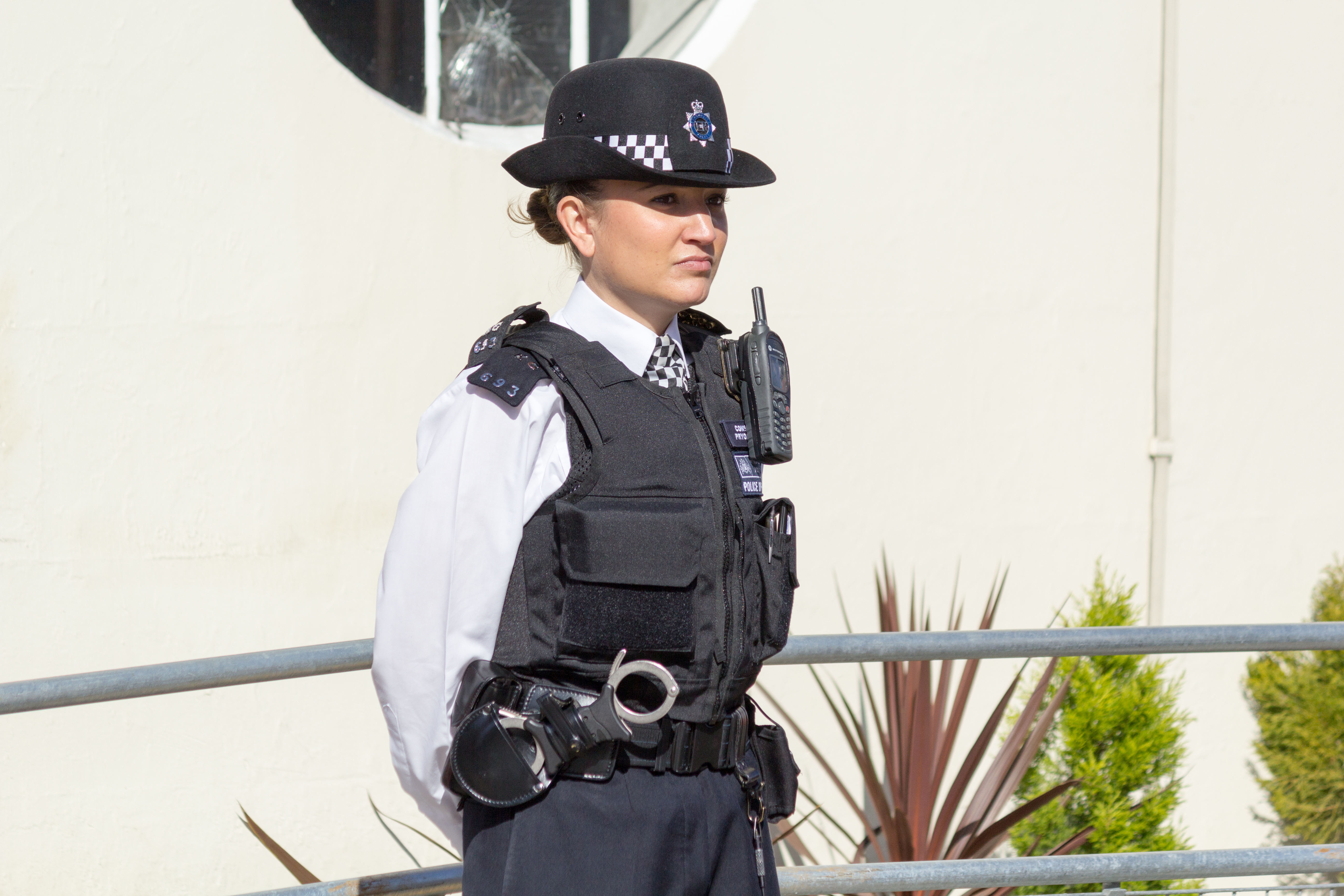 Police officer at the 2014 London Marathon.